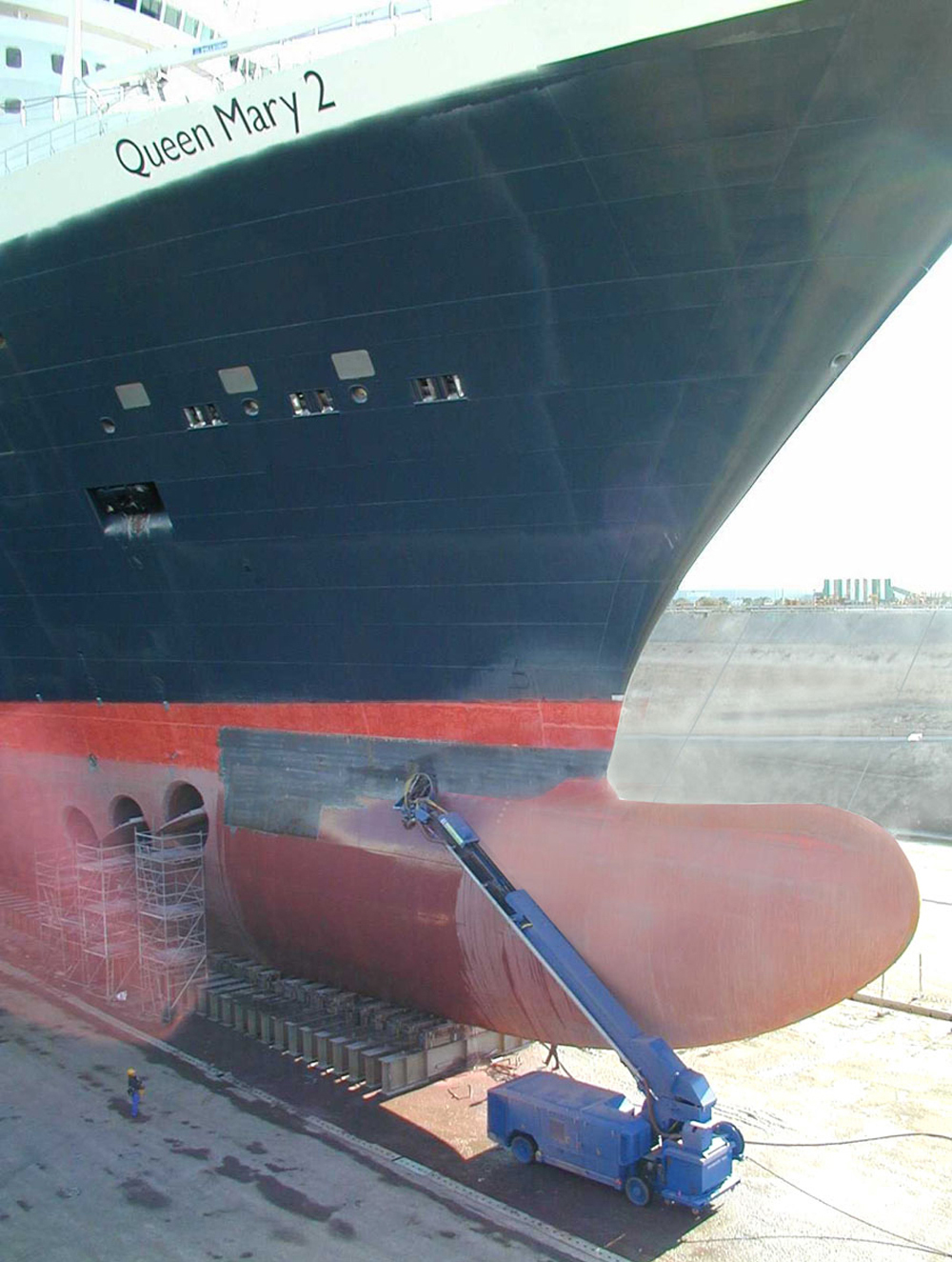 Semiautomatic vehicle for cleaning, de-rusting and stripping ship hulls - the waste water containing removed solid is vacuumed into the filter/ recovery module where the separated solids are retained for disposal